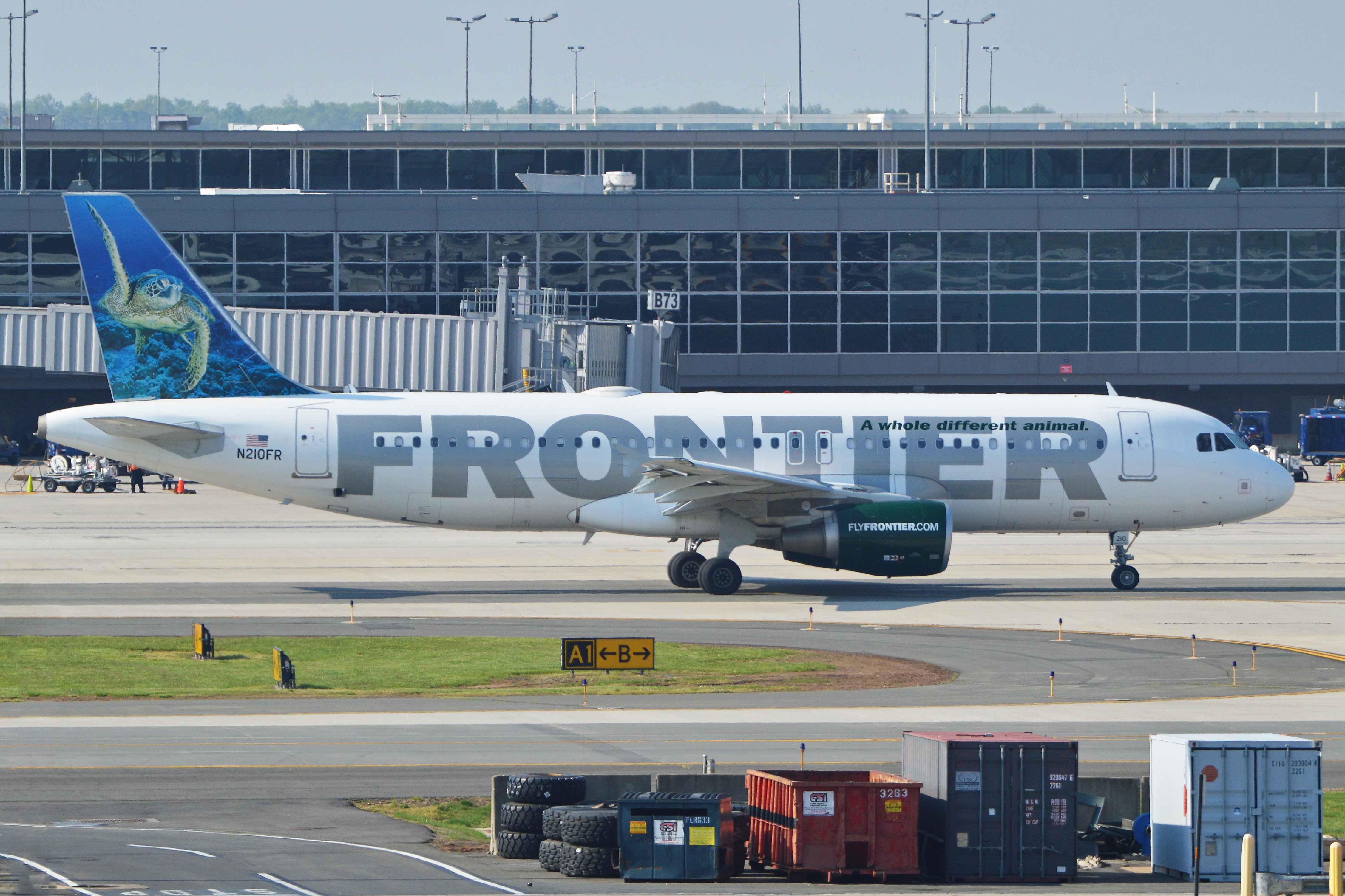 c/n 4668. Built 2011. On tow on the Signature ramp at Washington Dulles Airport, Virginia, USA. 07-5-2015